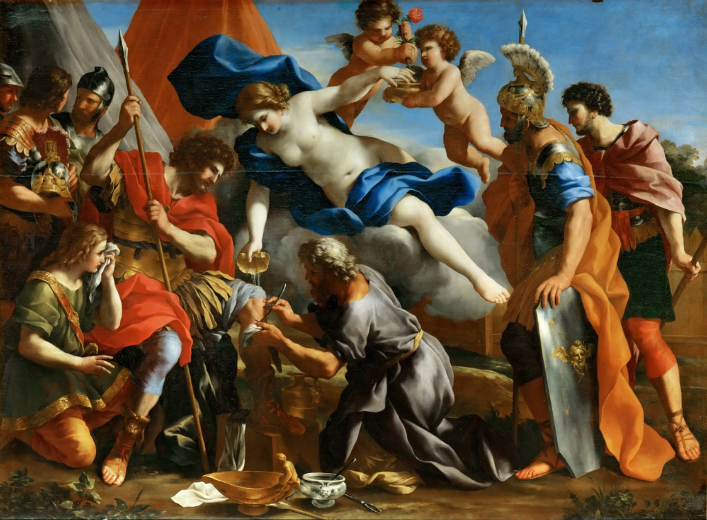 A painting by Giovanni Francesco Romanelli.